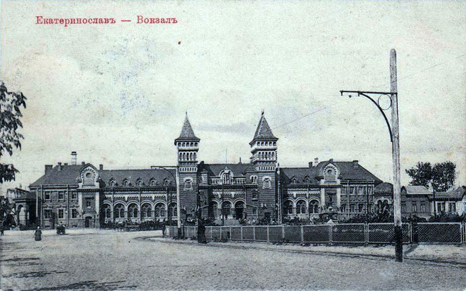 Фото начала 20 века.